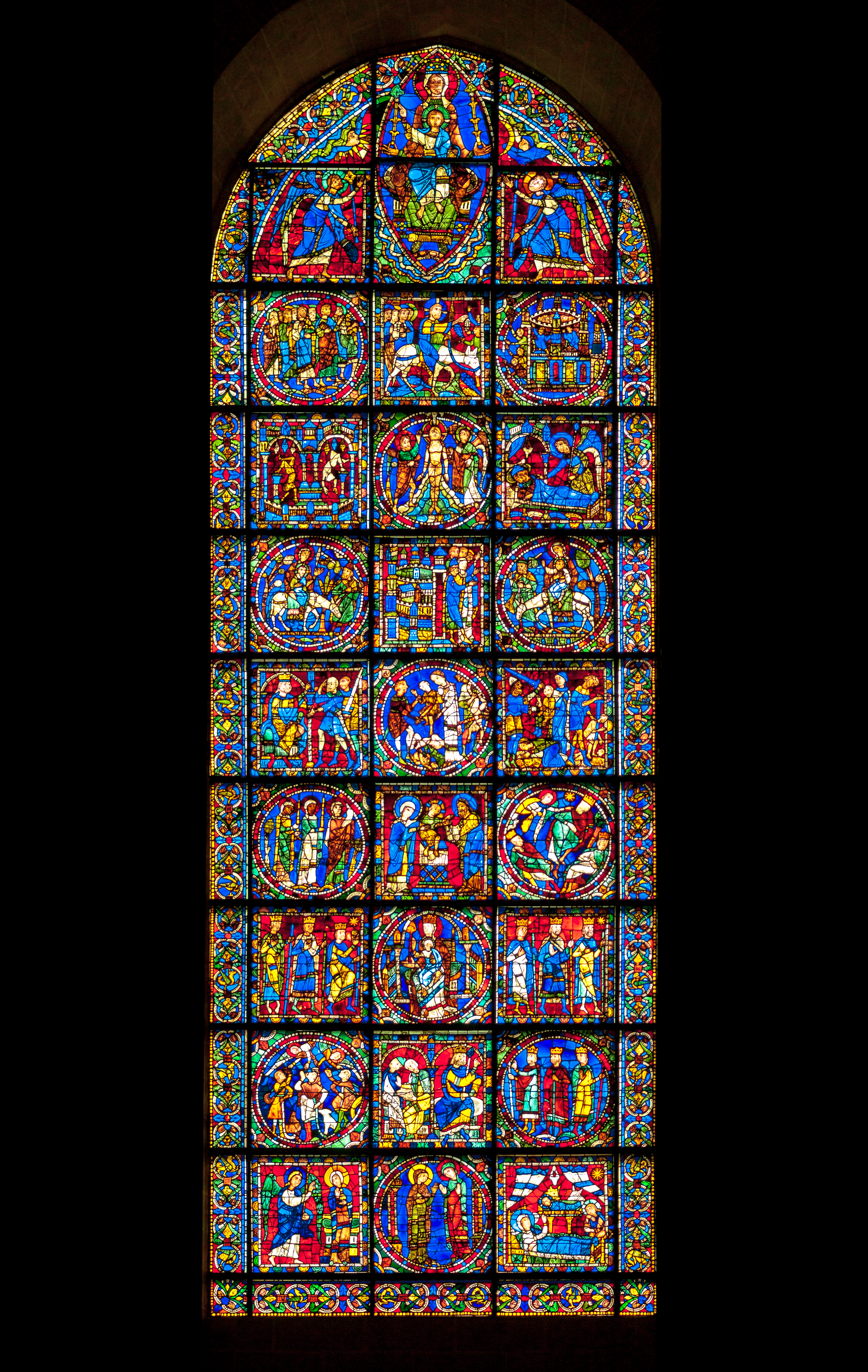 Chartres Cathedral, West Window (bay 050), Window 'Life of Jesus'